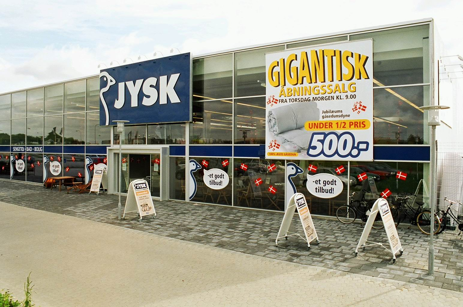 JYSK store in Tårnby